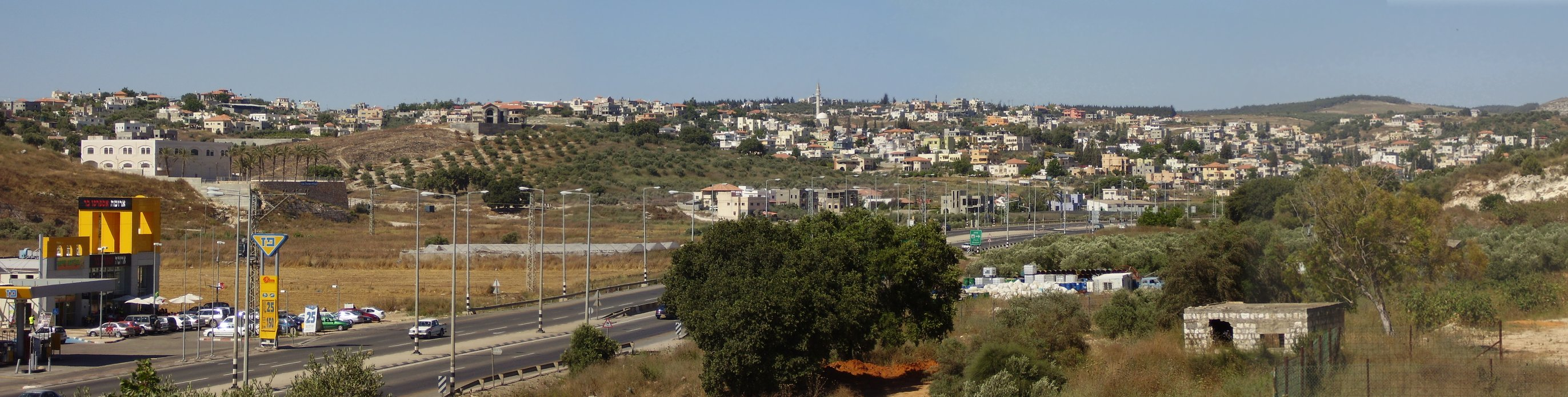 The Israeli-Arab village Ara – panoramic view from west, photographed from a hill to the south of road 65